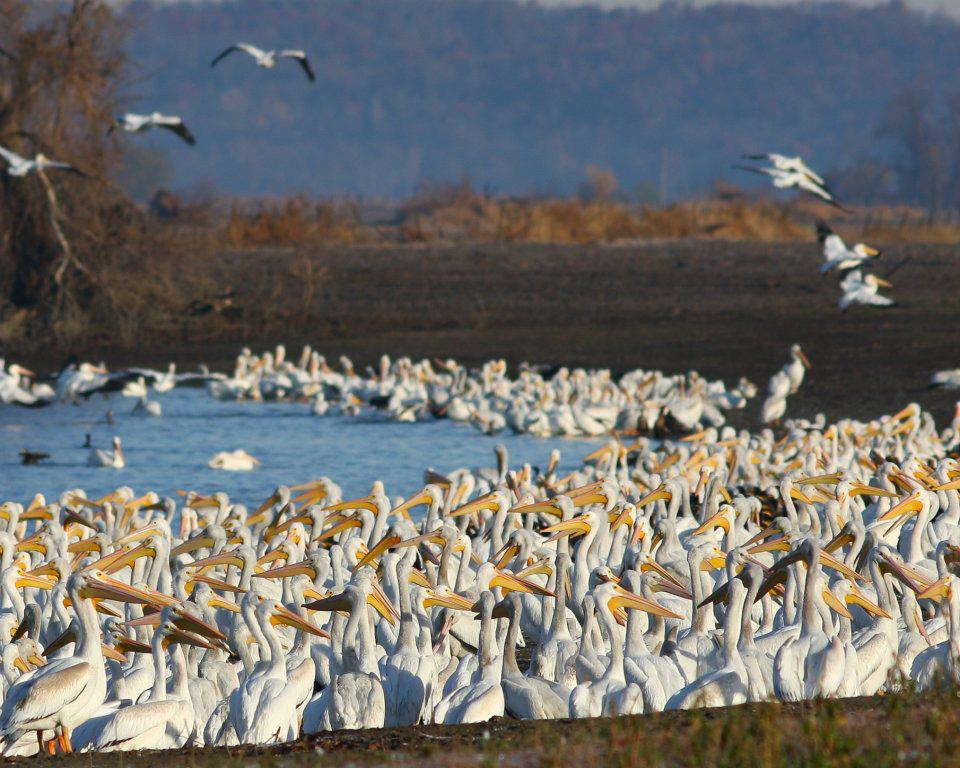 Squaw Creek National Wildlife Refuge, MO Nov. 2011 Photo: USFWS